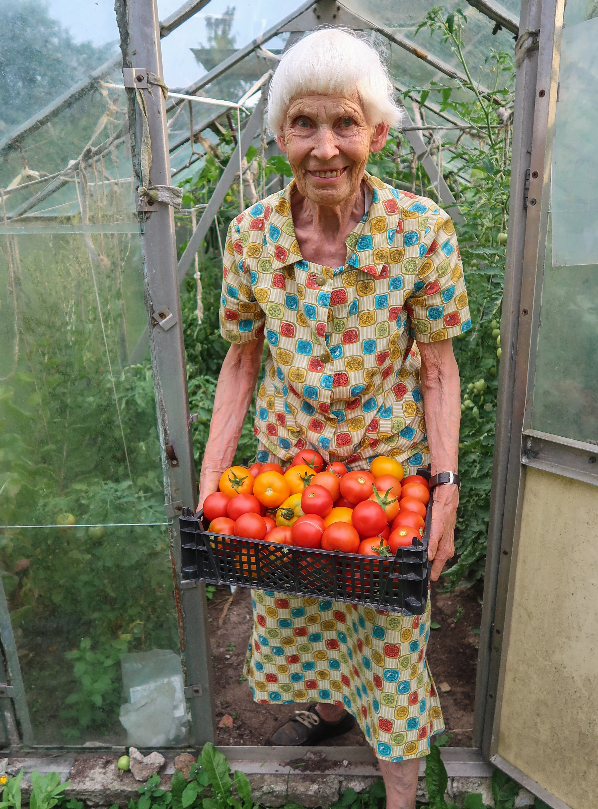 89-year-old gardener with her tomato yield from home (hobby) garden greenhouse. Due to proper care for her plants, she got such a box of tomatoes 1-3 times per week for about a month, from only a few square meters. (Harju County, Estonia).